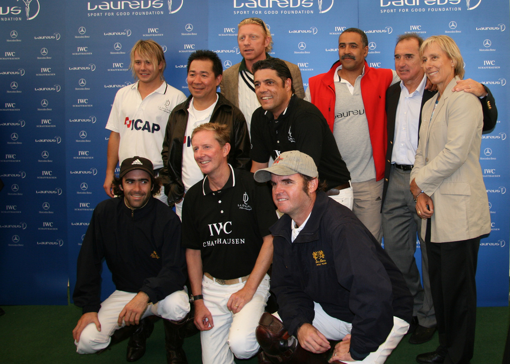 Players and Ambassadors at the 2007 Laureus day at Ham Polo Club, London. Top: Igor Kalinin, Boris Becker, Daley Thompson, Hugo Porta, Martina Navratilova. Middle: Vichai Raksriaksorn and Chris Graham. Kneeling: Juan Martin Nero, Ian Wooldridge and Eduardo Heguy.